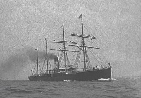 A circa 1890 photograph of the SS Rhynland, originally of the Red Star Line.